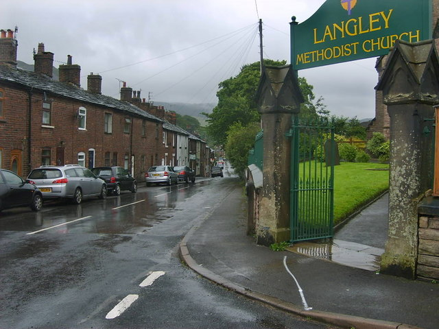 Main Road, Langley A near deserted road on a wet summer's afternoon.